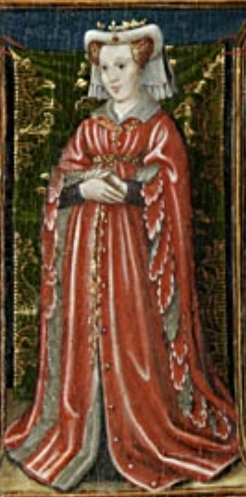 Posthumous portrait of Rozala or Susanna, daughter of Berengar II of Ivrea, King of Italy, as Countess of Flanders (late years of XV century).